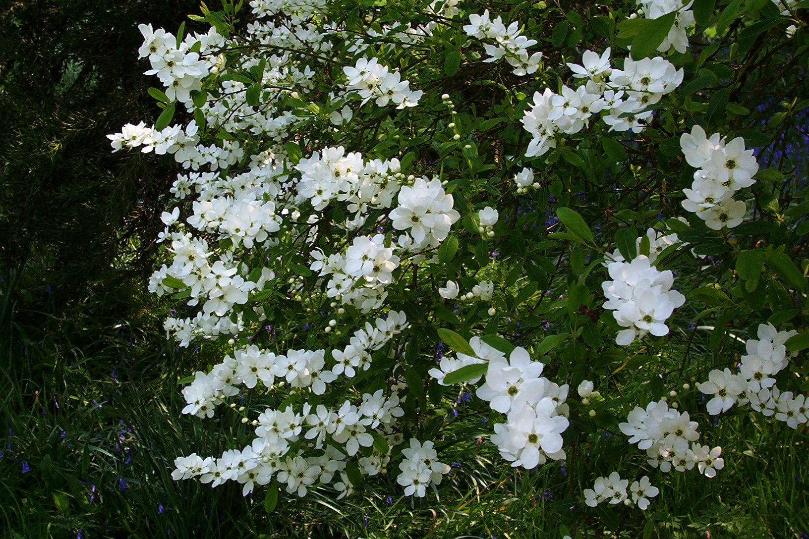 An enormous shrub (essentially a Spiraea with large flowers) fabulous for a while in spring (note the bluebells in the background) but frankly a bit too much the rest of the year unless you can afford the space. Rosaceae, China